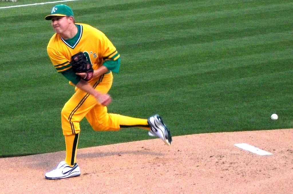 Trevor Cahill warming up before game against The Pirates. On 70's night.